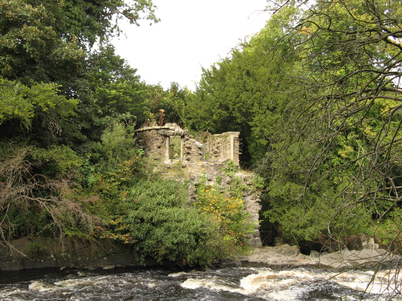 Ruins of the bath house and grotto at Craigiehall, by the River Almond, to the west of Edinburgh, Scotland.